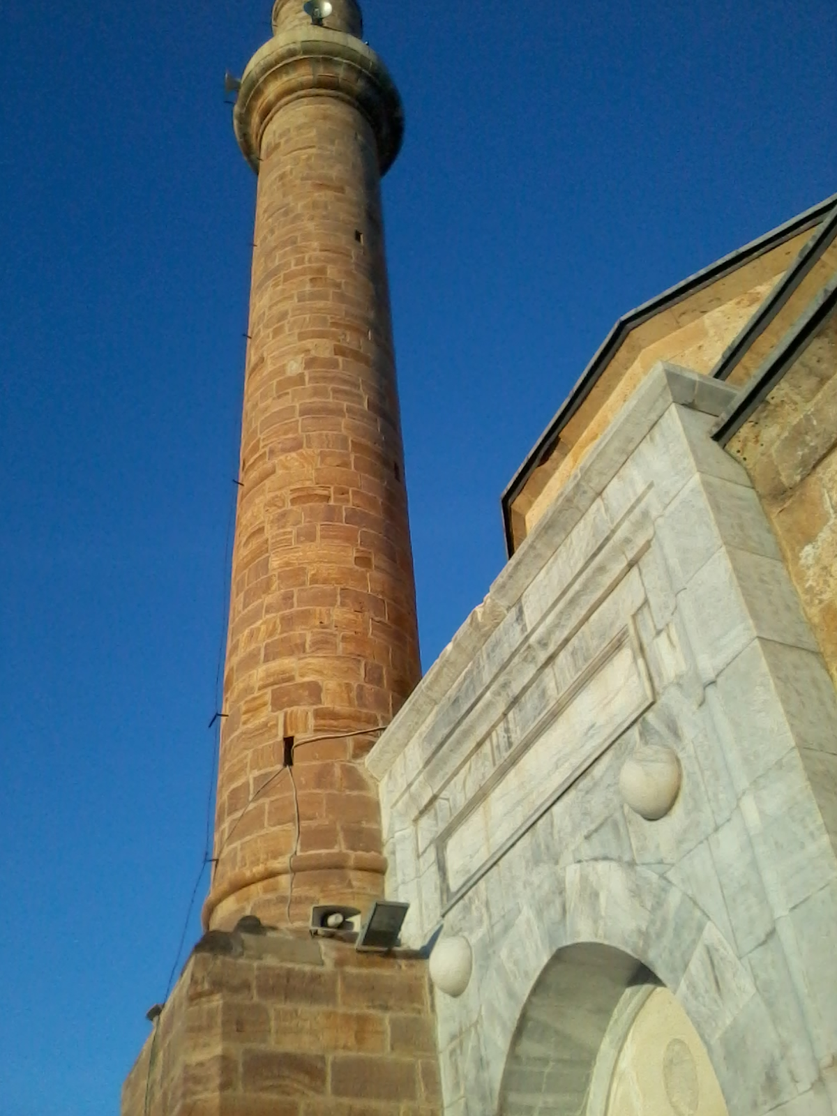 Ahi Evran Camii'nin minaresi ve giriş kapısının bir kısmı.